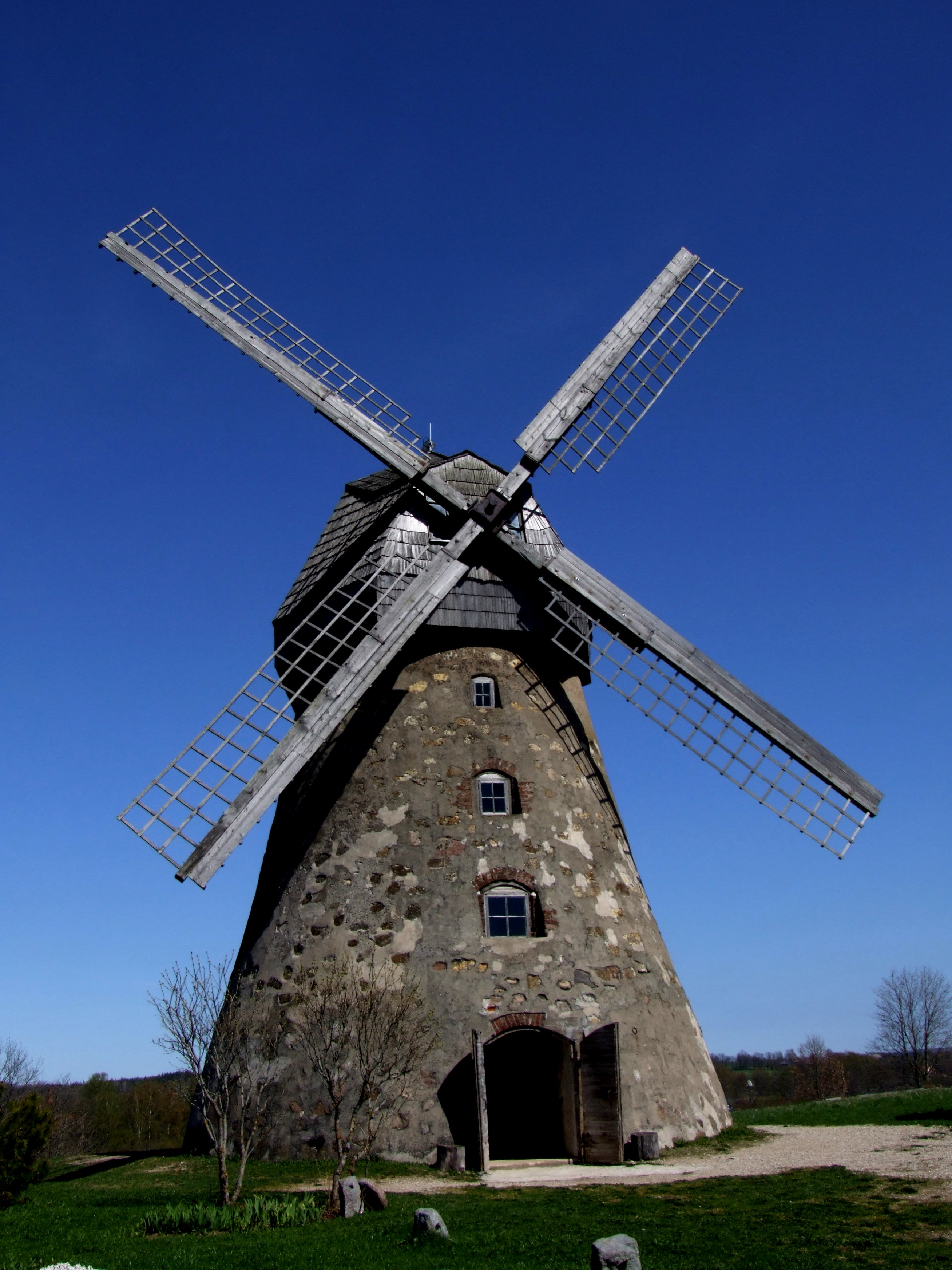 Āraiši Windmill on Drabeši estateLatviešu: Āraišu vējdzirnavas